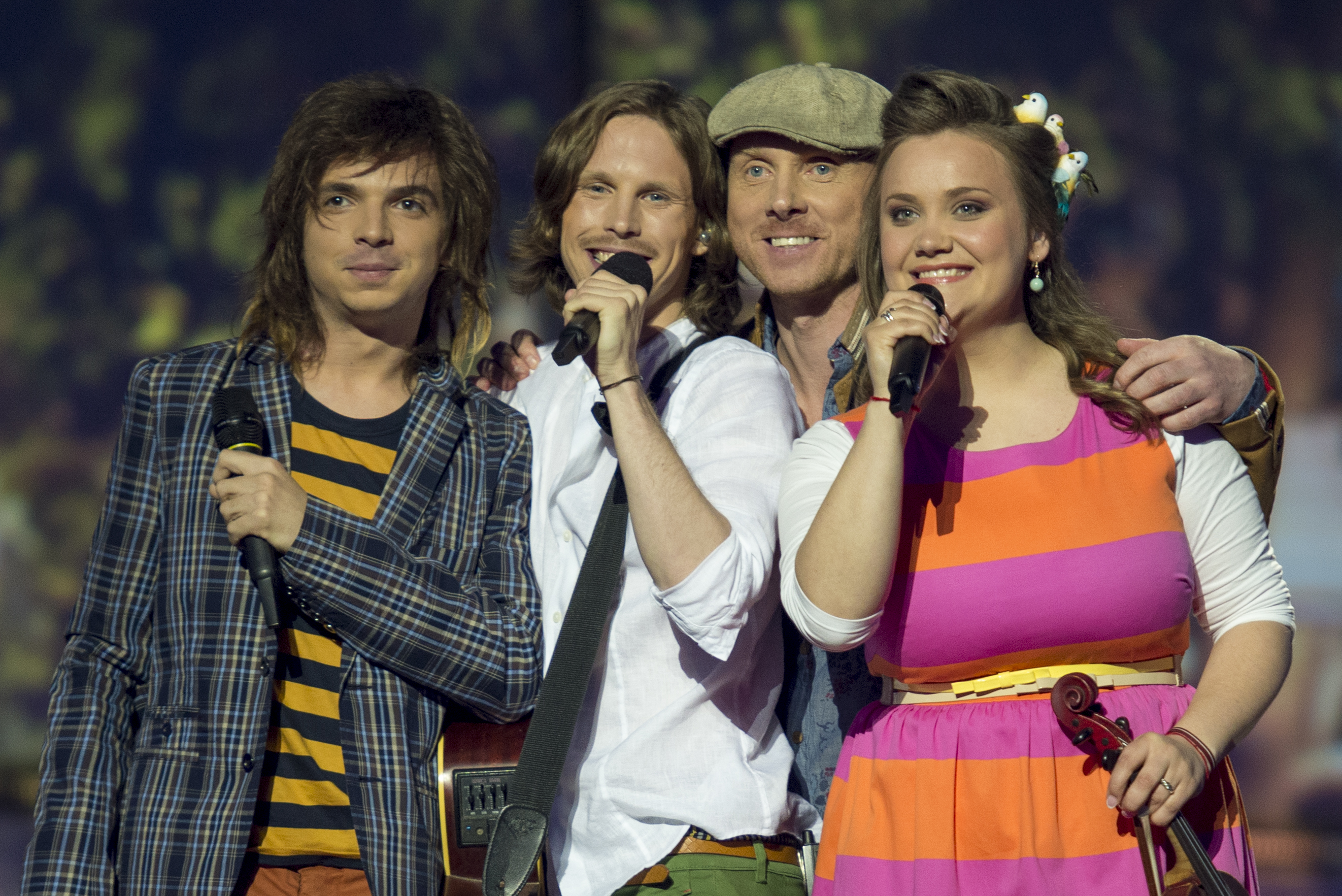 Aarzemnieki representing Latvia with the song "Cake to Bake" during the first dress rehearsal of the first semi final of the Eurovision Song Contest 2014 Copenhagen. (Help translate this text)